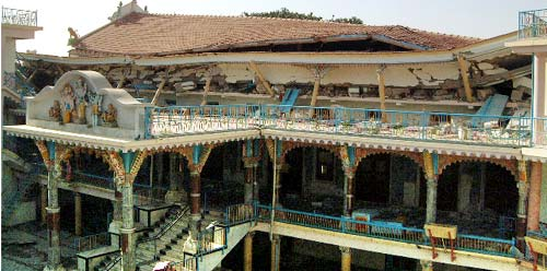 The old Swaminarayan Mandir in Bhuj, that was partly destroyed by the earthquake in 2001.